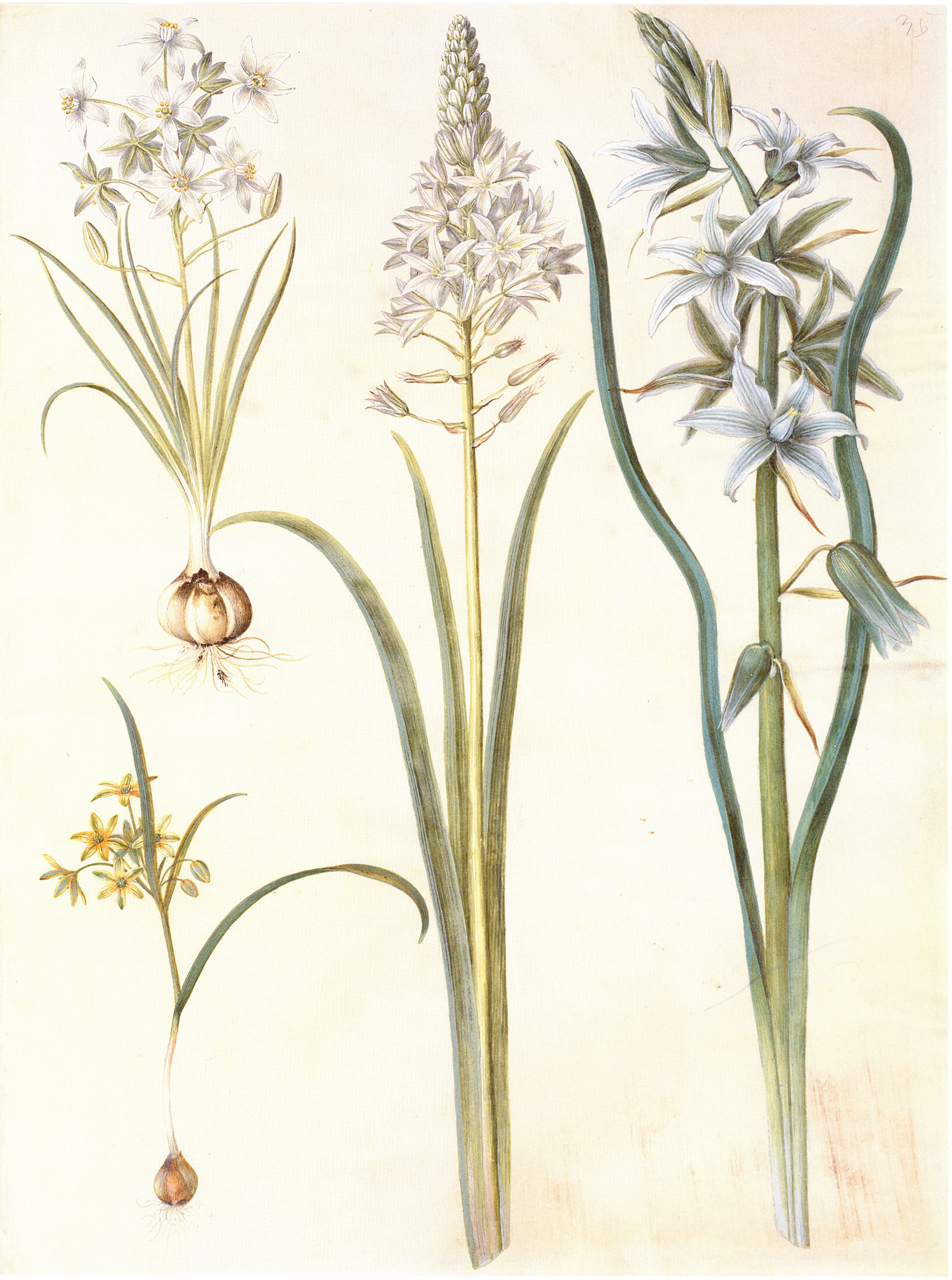 Gagea sp., Ornithogalum umbellatum, Ornithogalum narbonense and Ornithogalum nutans, gouache on vellum, in: Gottorfer Codex